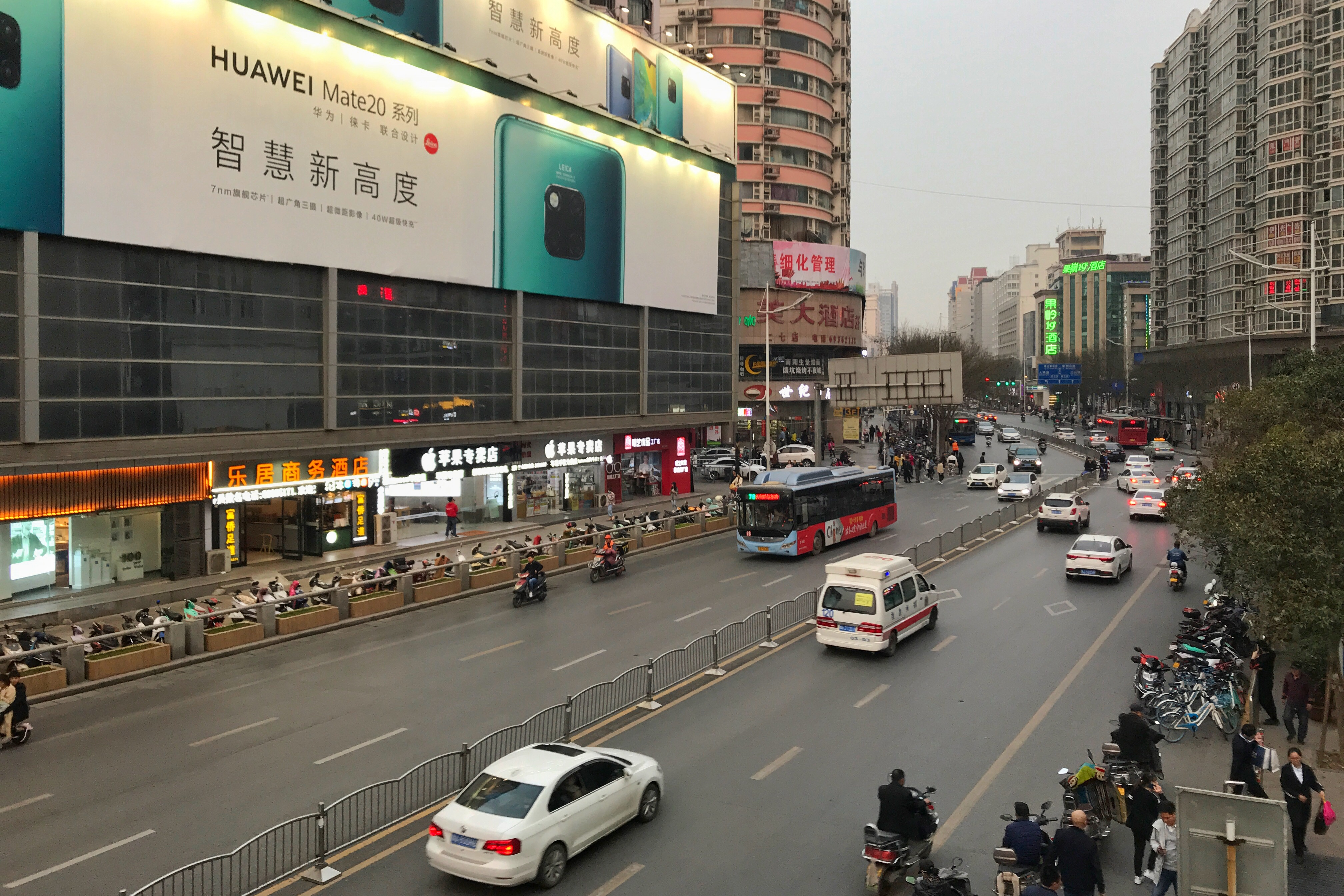 Xidajie (literally West Street) near Erqi Square in Zhengzhou